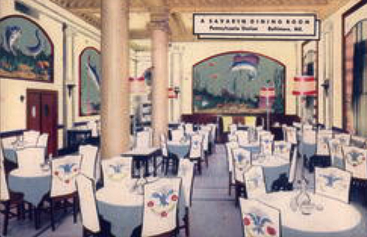 The old Savarin Restaurant at Pennsylvania Station (Baltimore), Maryland, as it appeared in the 1920s-1930s.